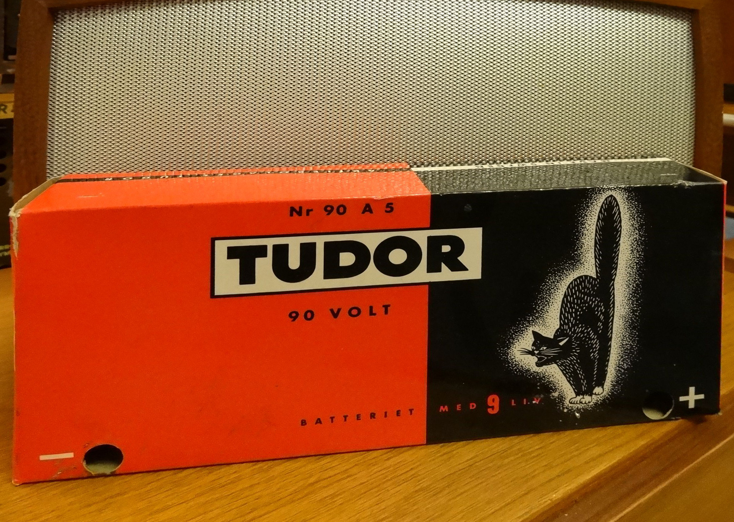 Casing to a 90 Volt dry battery, manufactured at the Tudor-Pertrix plant in Sundbyberg, Sweden. The battery was used in vacuum-tube radios.